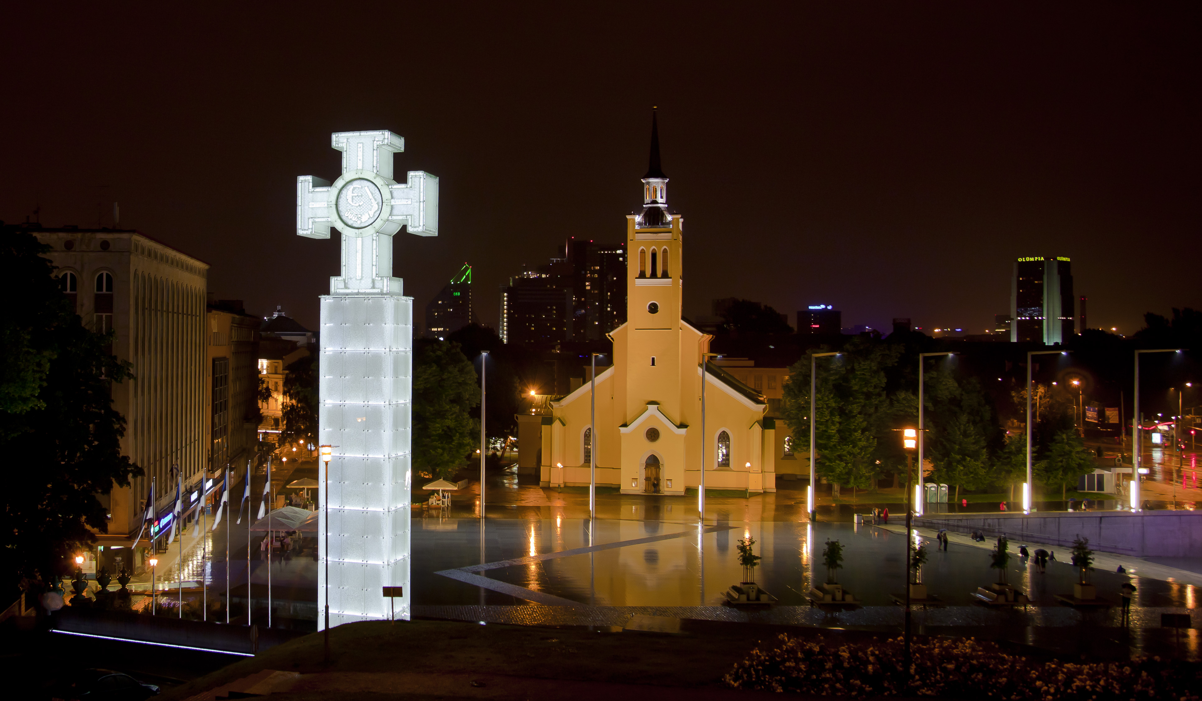 Independence War Victory Column, St John's church and building nr. 10 of the Freedom square, Tallinn, Estonia